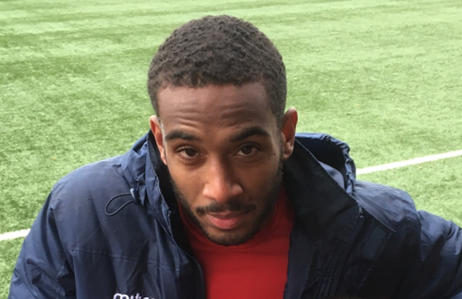 Photo taken by myself of Tyrell Waite following the Tamworth Vs. Leiston game on October 26 2019 at The Lamb Ground.